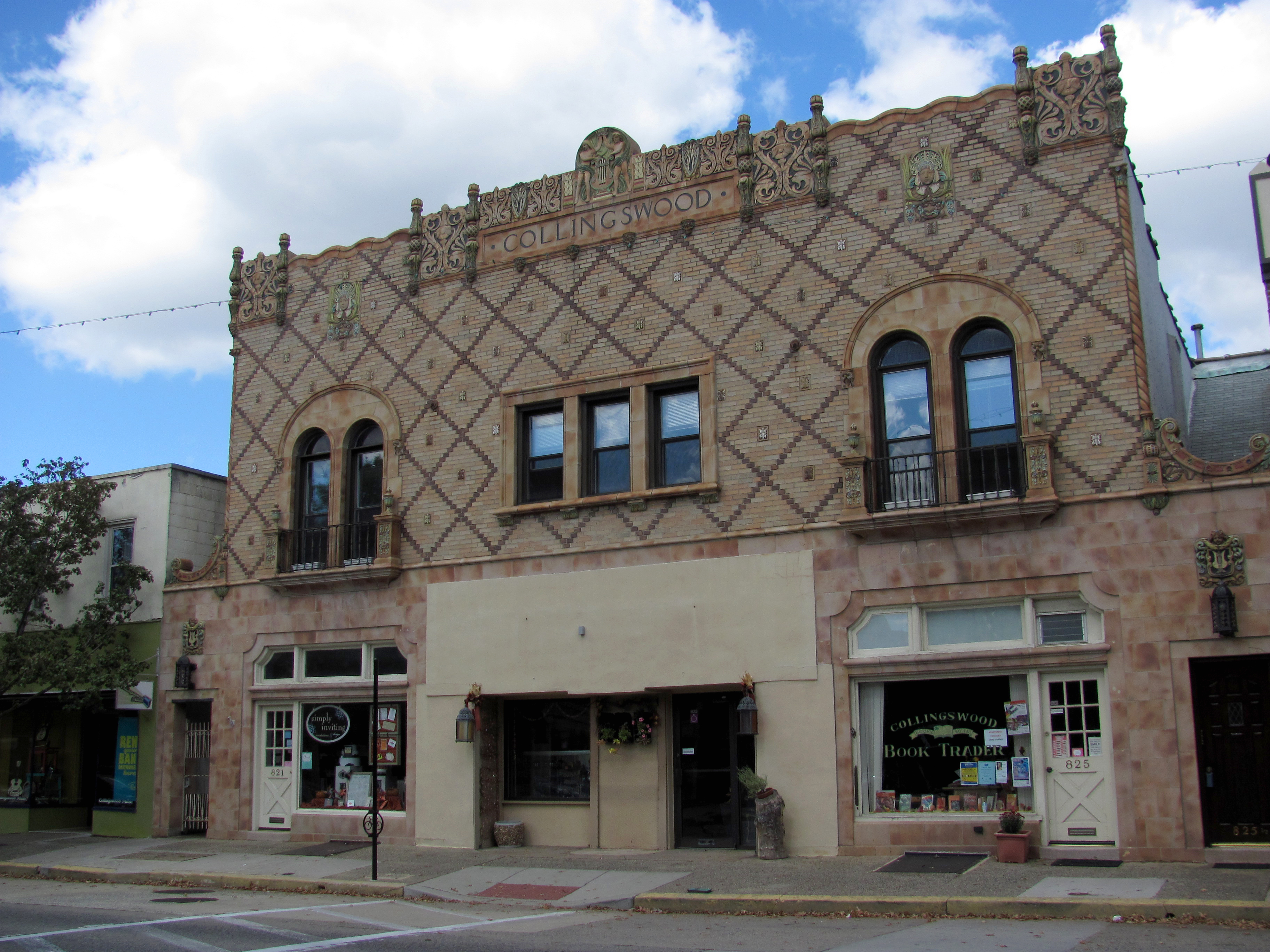 View of Collingswood Theatre, 843 Haddon Ave. Collingswood, New Jersey, looking north across Haddon Avenue.